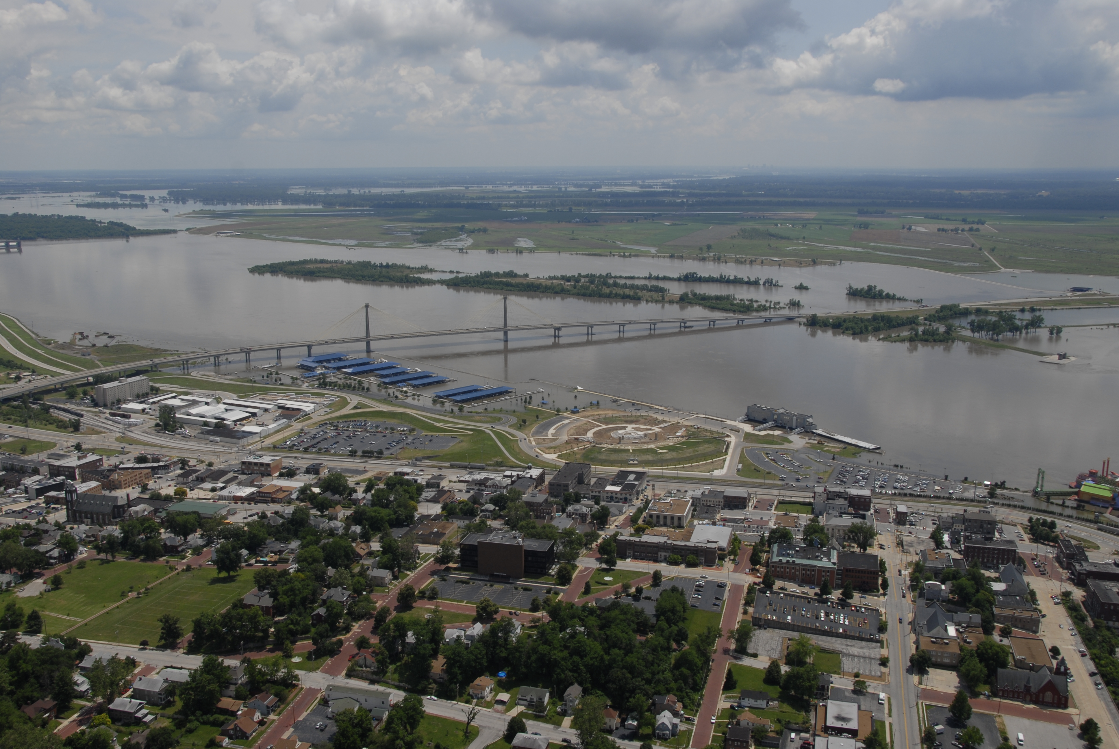 An aerial view of Alton, Ill., taken June 20, 2008, shows flooding of the Mississippi River. The Illinois National Guard has activated Soldiers and Airmen to fortify levees along the river and protect the property of local citizens. (U.S. Air Force photo by Master Sgt. Ken Stephens/Released)